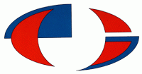 This is a logo for Creation Records. The logo is of a size and resolution sufficient to maintain the quality intended by the company or organization, without being unnecessarily high resolution.The image is used to identify the organization Creation Records, a subject of public interest. The significance of the logo is to help the reader identify the organization, assure the readers that they have reached the right article containing critical commentary about the organization, and illustrate the organization's intended branding message in a way that words alone could not convey. Because it is a non-free logo there is almost certainly no free repesentation. Any substitute that is not a derivative work would fail to convey the meaning intended, would tarnish or misrepresent its image, or would fail its purpose of identification or commentary. Use of the logo in the article complies with Wikipedia non-free content policy, logo guidelines, and fair use under United States copyright law as described above.